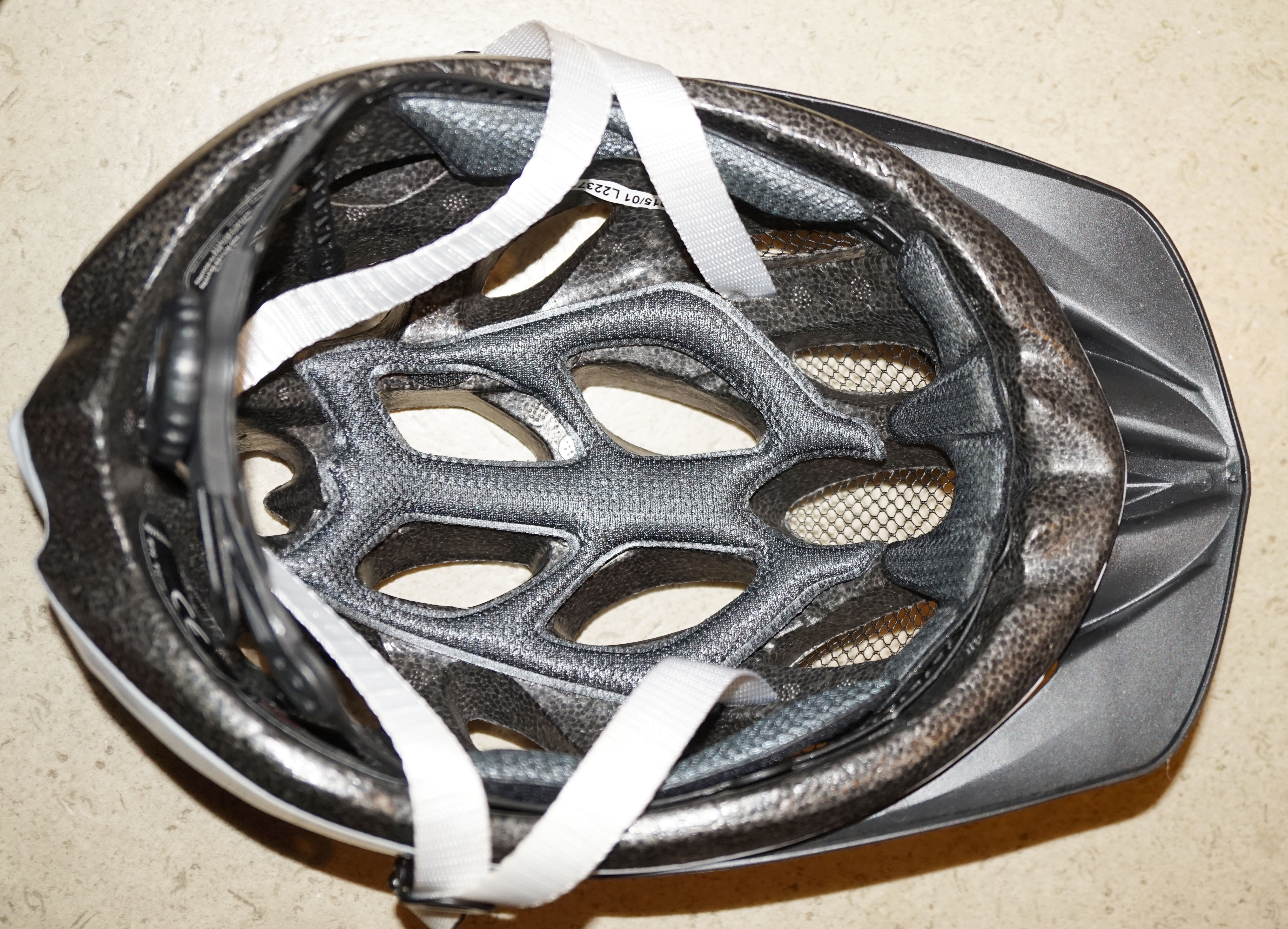 Interior of the bicycle helmet Limar 690 superlight.This photograph was taken with a Sony ILCE-5000